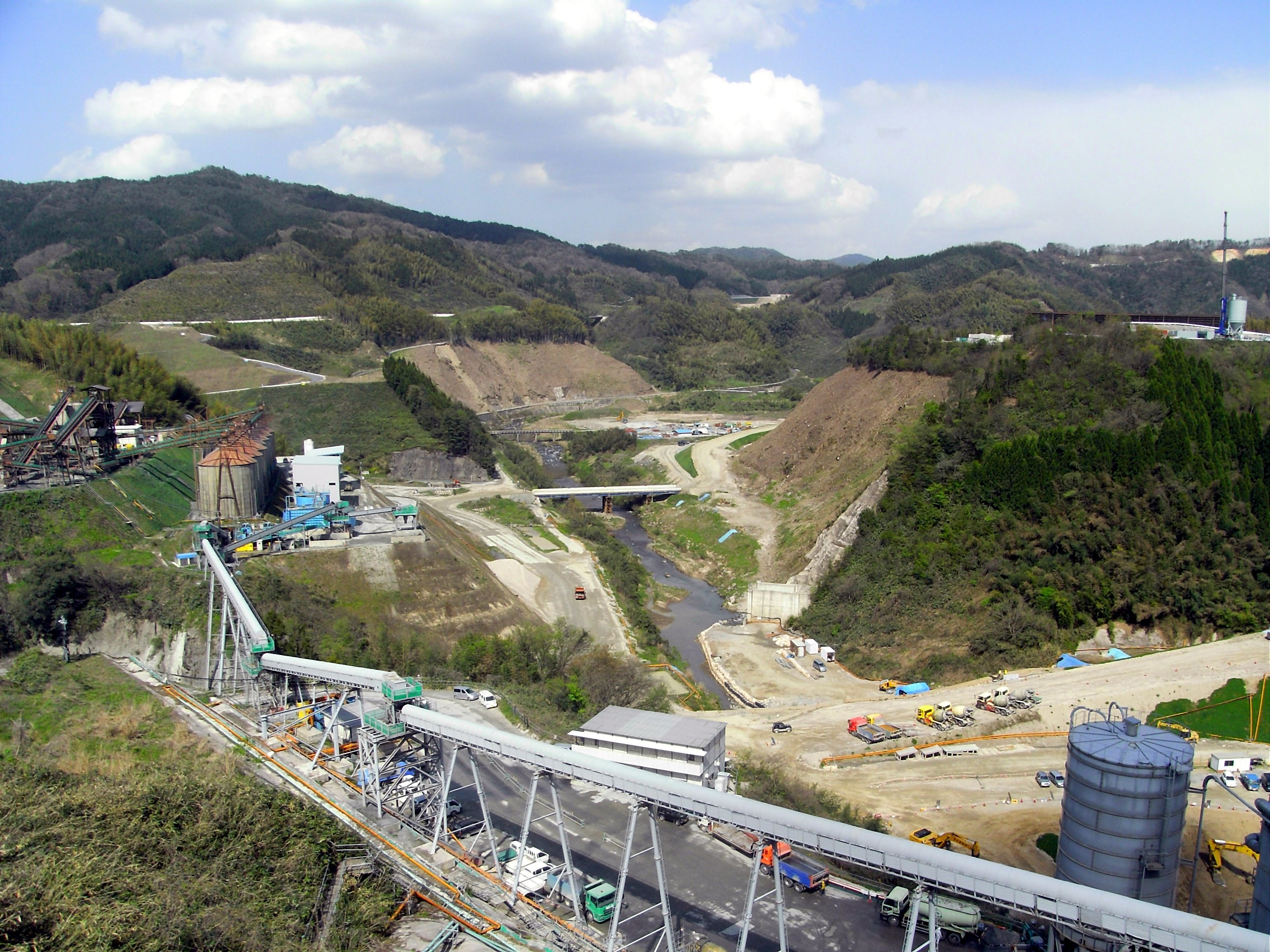 Lake Obara Dam (Hiigawa river/Shimane pref./Japan)